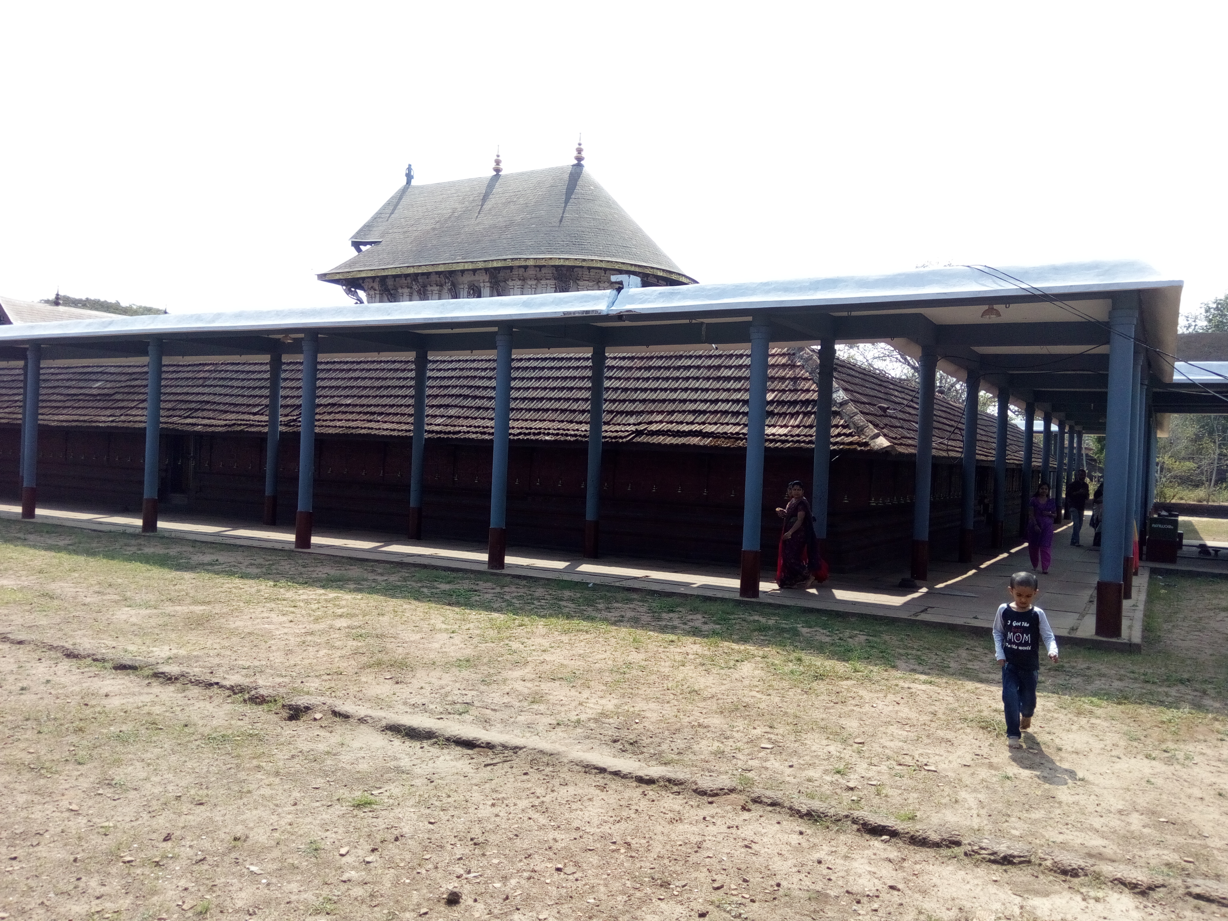 Payyanur temple is a subrahmanya temple in payyanoor town, kerala. the shrine of this temple. view from outside.